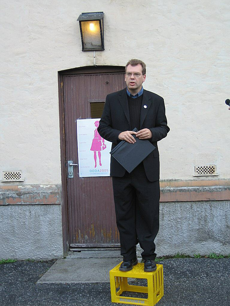 Frode Grytten. Picture taken by Arne Midtbø and released to the public.